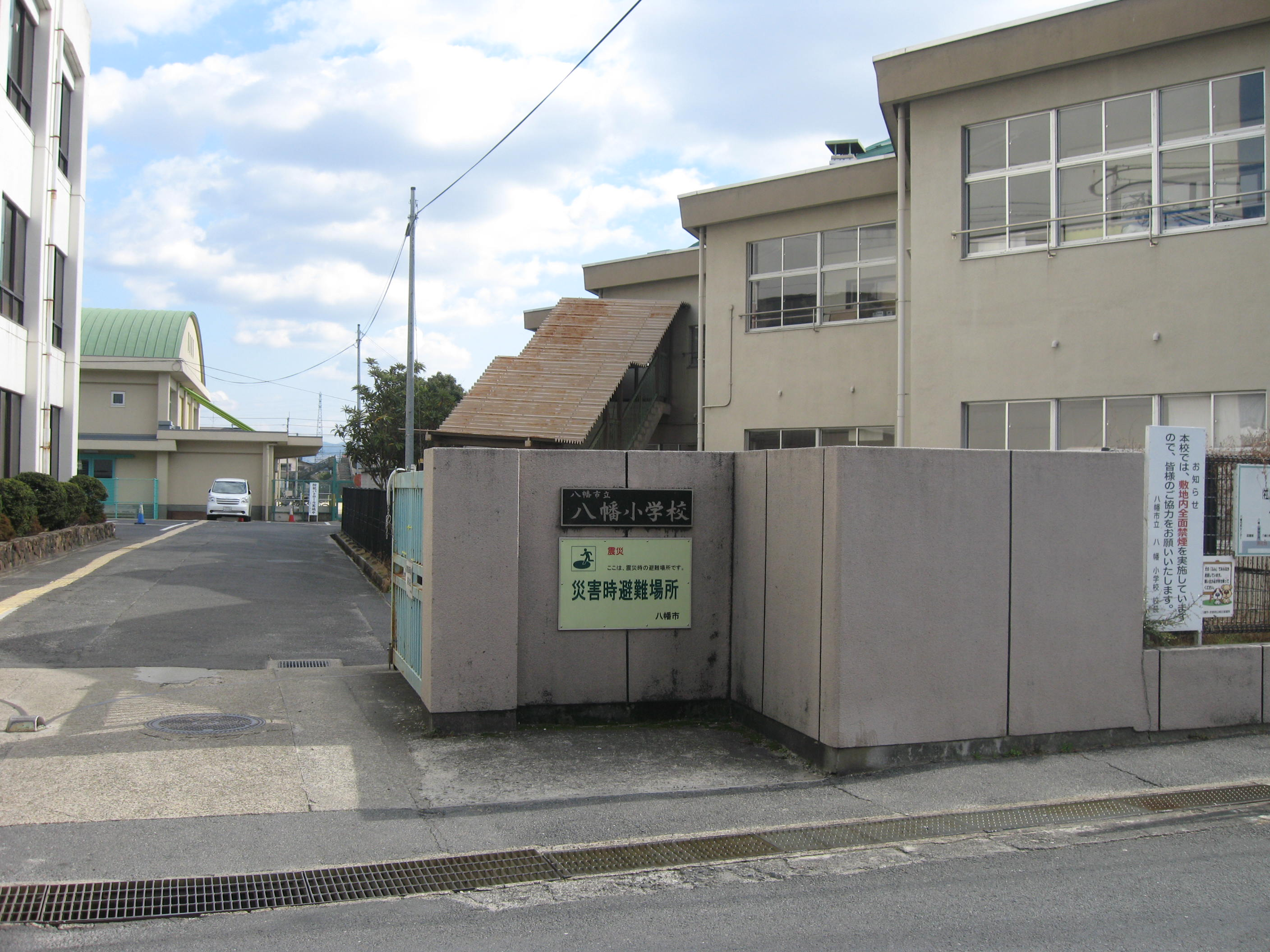 yawata-shiritsu_yawata_elementary_school_main-gate